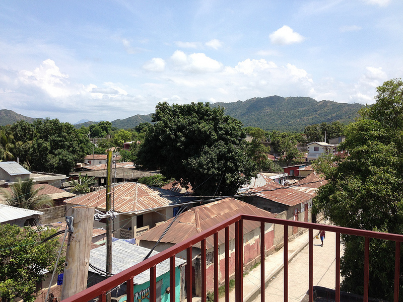 The town of Limonade, Haiti in April 2013